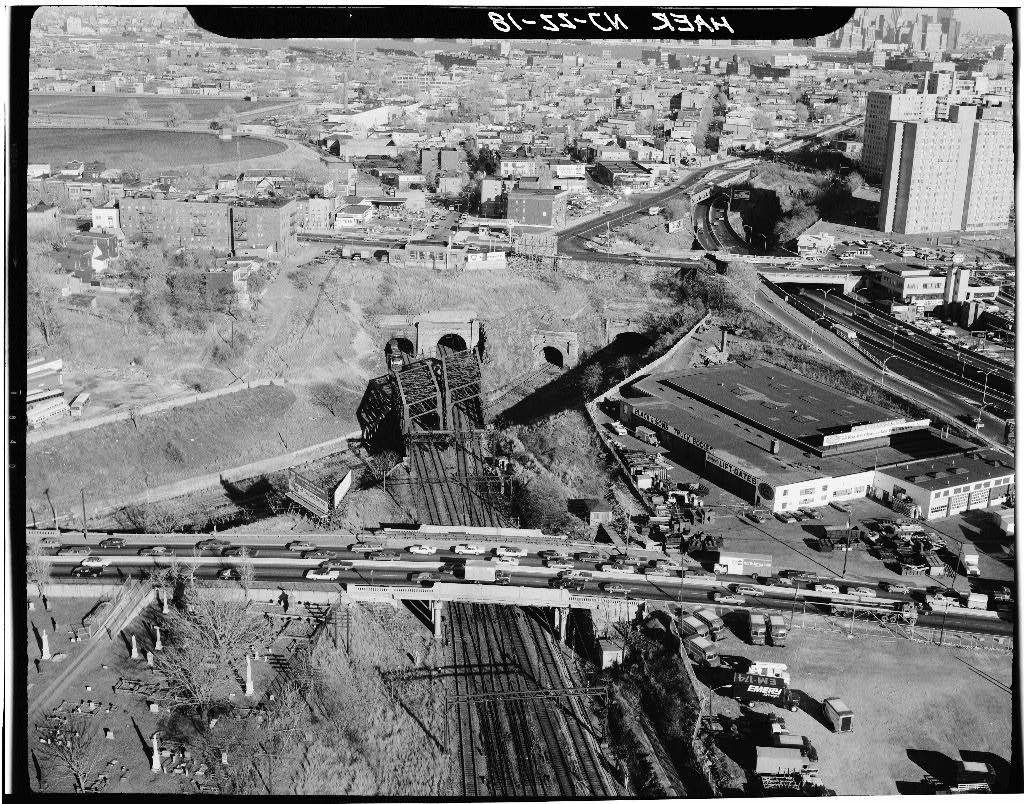 Bergen Hill-Aerial view of western portals of road and rail infrastructure through lower Hudson Palisades in Jersey City: Delaware, Lackawanna, and Western's Bergen Hill Tunnels (New Jersey Transit Hoboken Division), Erie Railroad's Long Dock Tunnel (Conrail Shared Assets-CSX's National Docks Secondary), The Erie Cut under Bergen Arches (unused), Route One Extension dual level highway (Route 139). Tonnelle Avenue (Route 1/9) in foreground. Reservoir No.1 (demolished) & Reservoir No.3 (nature preserve) in upper left